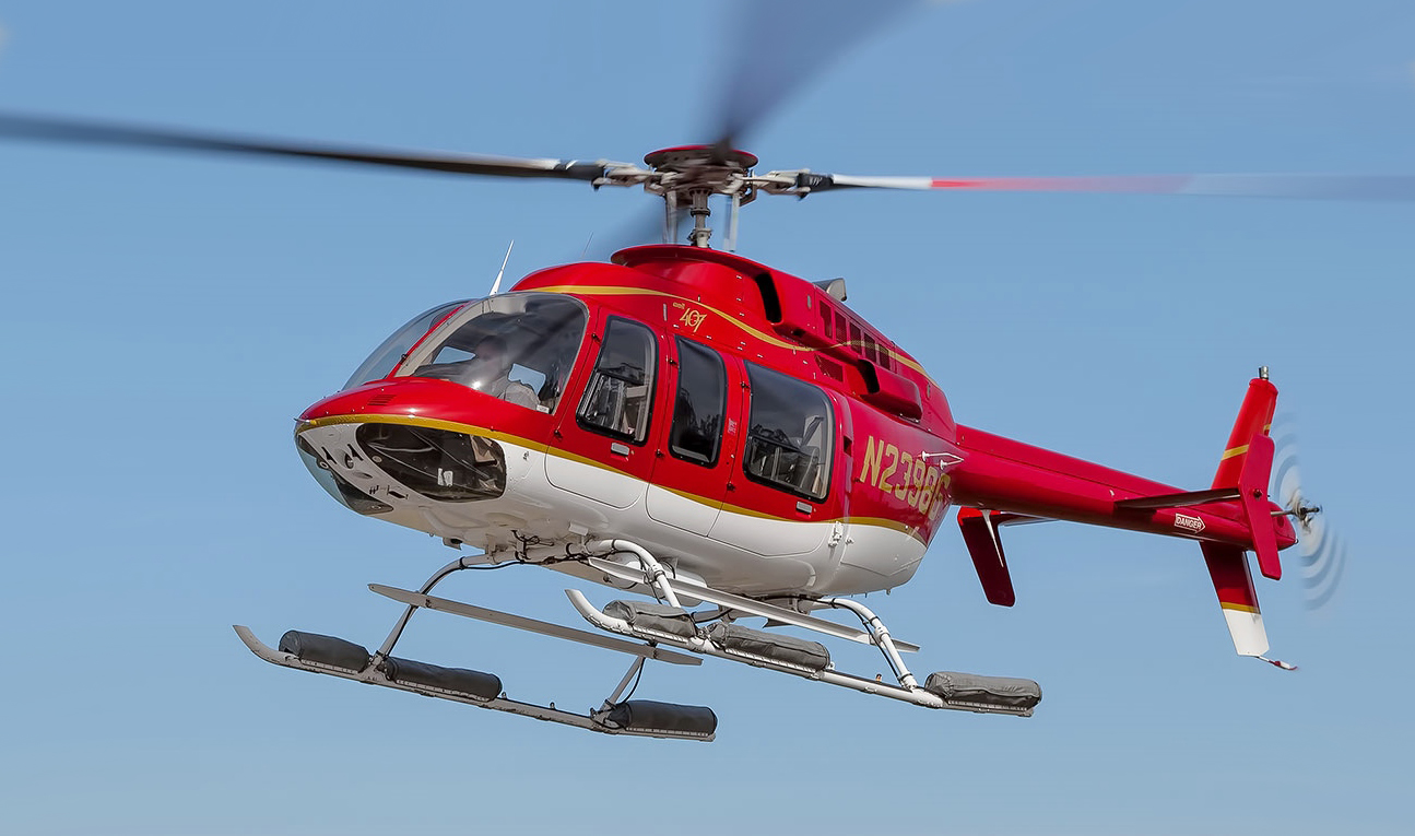 Bell 407 N23986